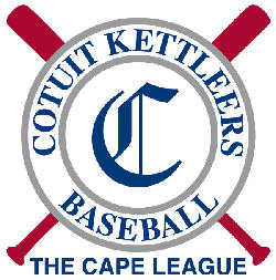 Logo for the Cotuit Kettleers